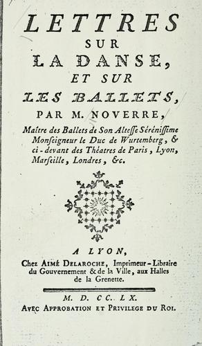 Title page of the book Lettres sur la danse, et sur les ballets, par M. Noverre, maître des ballets de Son Altesse Sérénissime Monseigneur le Duc de Wurtemberg, & ci-devant des théâtres de Paris, Lyon, Marseille, Londres, &, Lyon, Aimé Delaroche, 1760